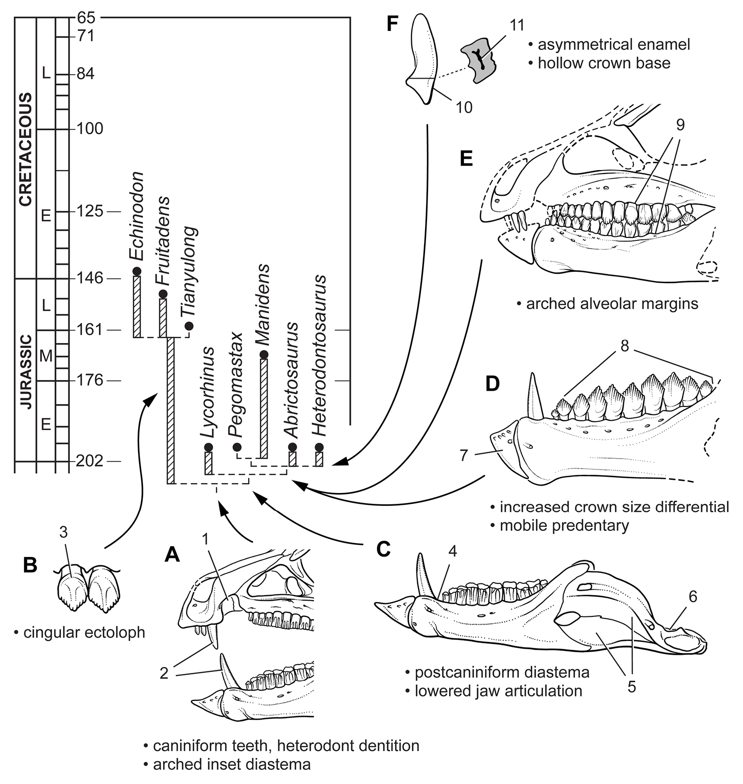 Evolution of key masticatory specializations among heterodontosaurids. A Heterodontosauridae B Simple-crowned heterodontosaurids C Heterodontosaurinae D Advanced heterodontosaurines E Abrictosaurus and Heterodontosaurus F Heterodontosaurus. Abbreviations: 1 arched inset diastema 2 heterodont dentition with caniniform teeth 3 cingular ectoloph 4 postcaniniform diastema 5 external mandibular fossa 6 lowered jaw articulation 7 mobile predentary articulating against saddle-shaped dentary articular surface 8 increased differential in crown size 9 arched alveolar margins in cheek dentition 10 asymmetrical enamel 11 hollow crown base.